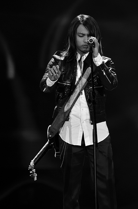 Faizal Tahir during the rehearsal of "Sampai Syurga" at the 23rd Anugerah Juara Lagu at Stadium Putra Bukit Jalil on January 18, 2009.